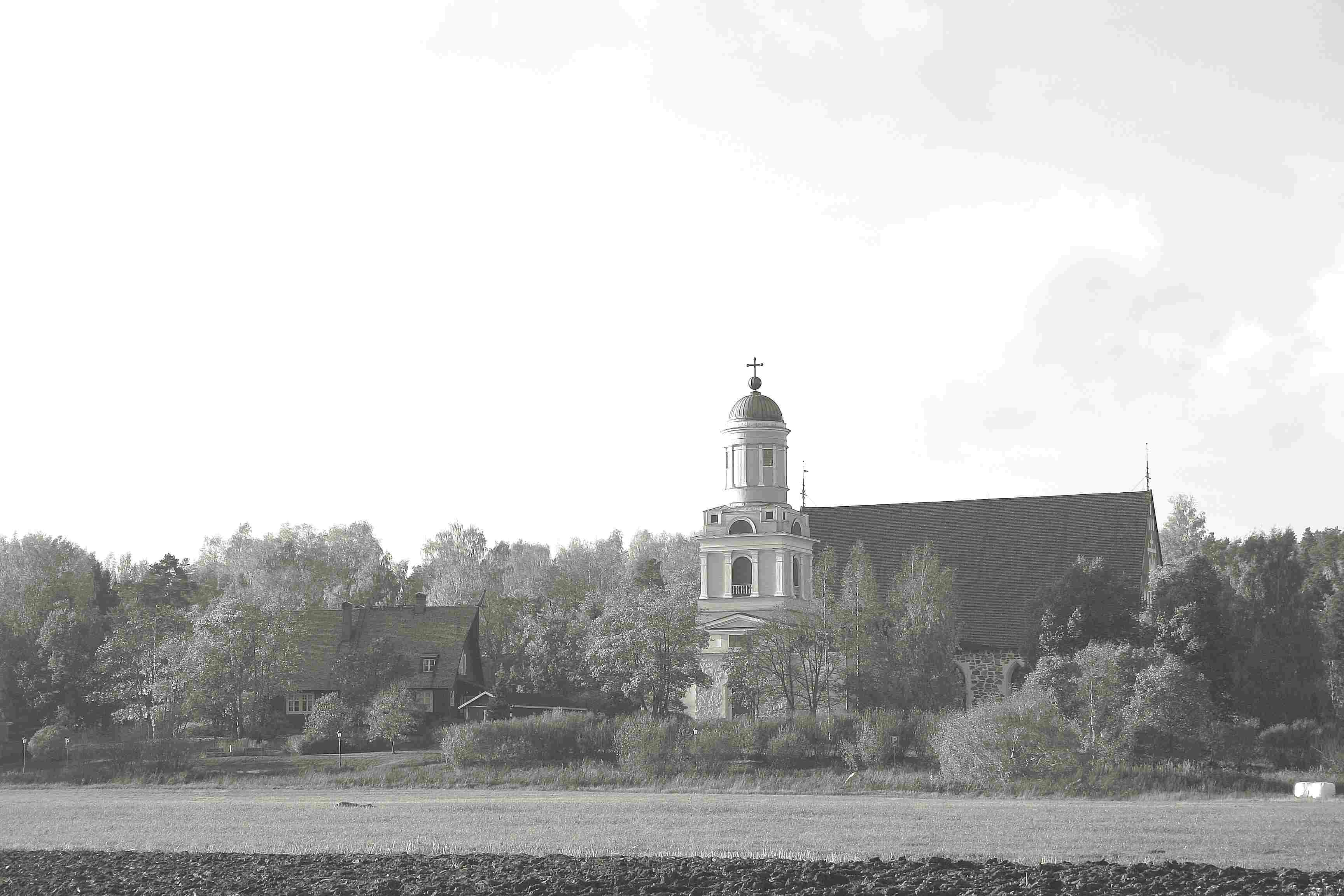 The main village of Hollola, Finland. In the photograph is seen the stone church (1510), the belfry (1832) and the municipal house (1902).